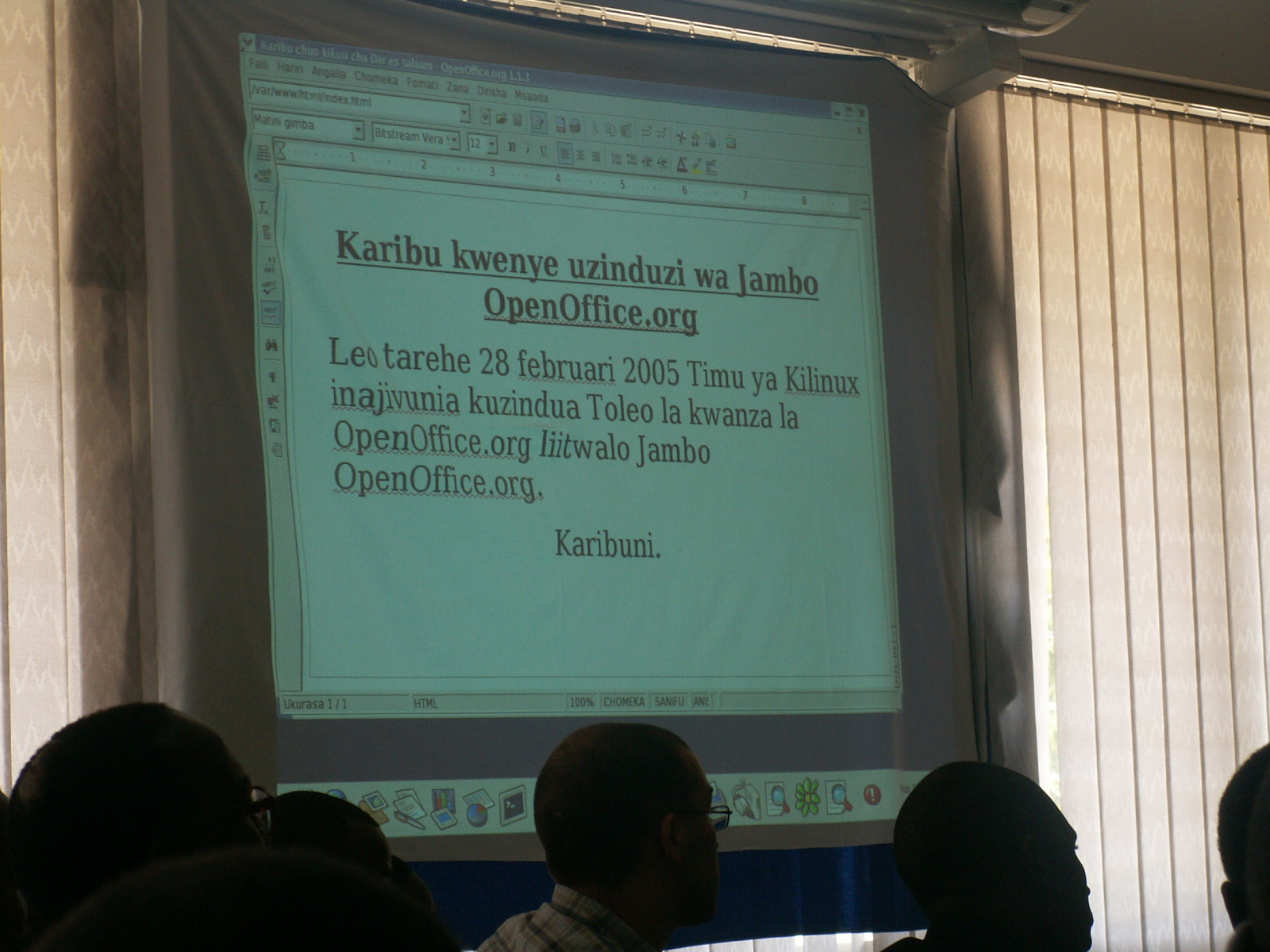 Projected image at first official release of Jambo OpenOffice in University of Dar Es Salaam